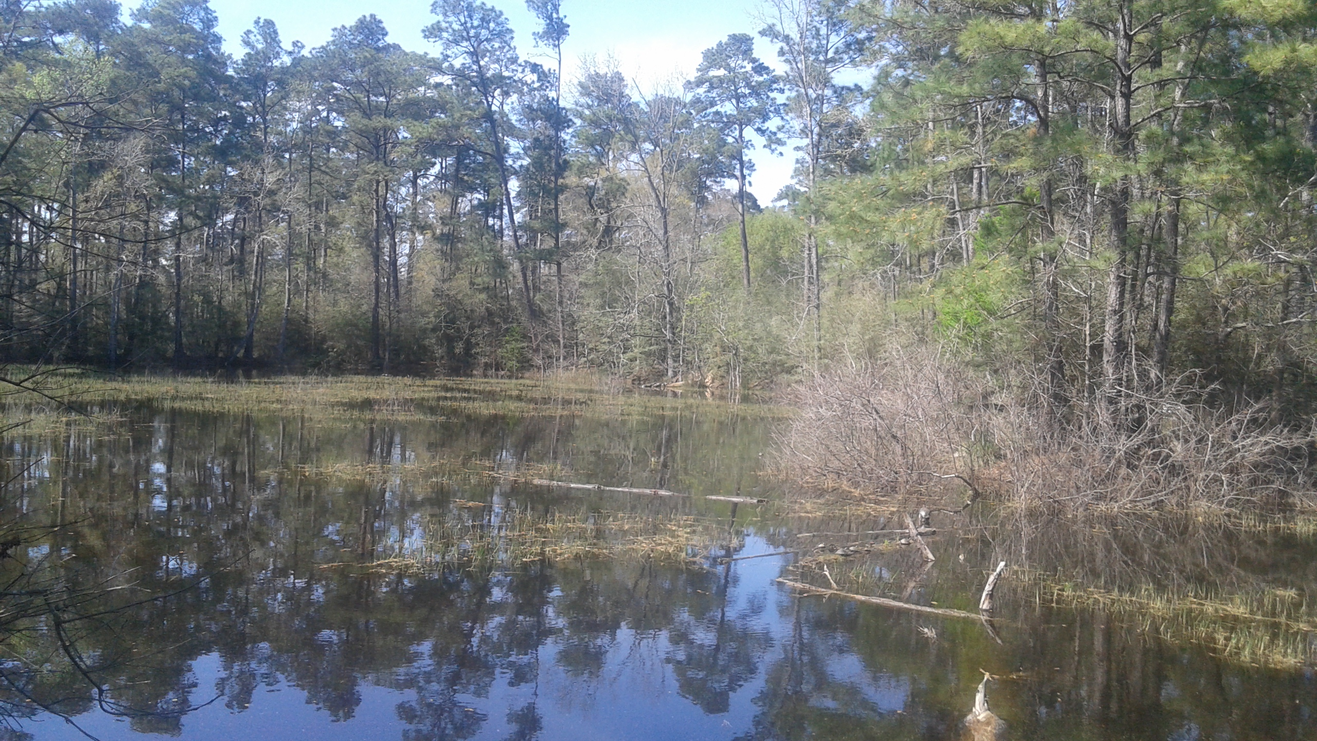 W. Goodrich Jones State Forest in Conroe, Texas. Photo of Middle Lake on the southern side of the forest.